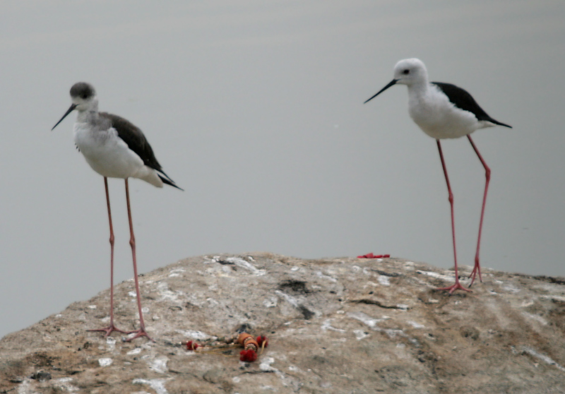 Black-winged Stilt Himantopus himantopus in Hyderabad, India.